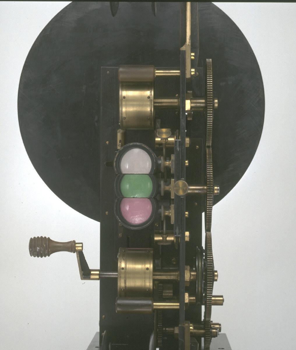 Object from the National Media Museum Collection. Edward Turner’s method for creating moving colour pictures was to record successive frames on black and white film through red, green and blue filters and to project these sets of three frames superimposed through similar filters. Images are projected through red, green and blue filters onto a screen at the rate of 16 pictures per second.